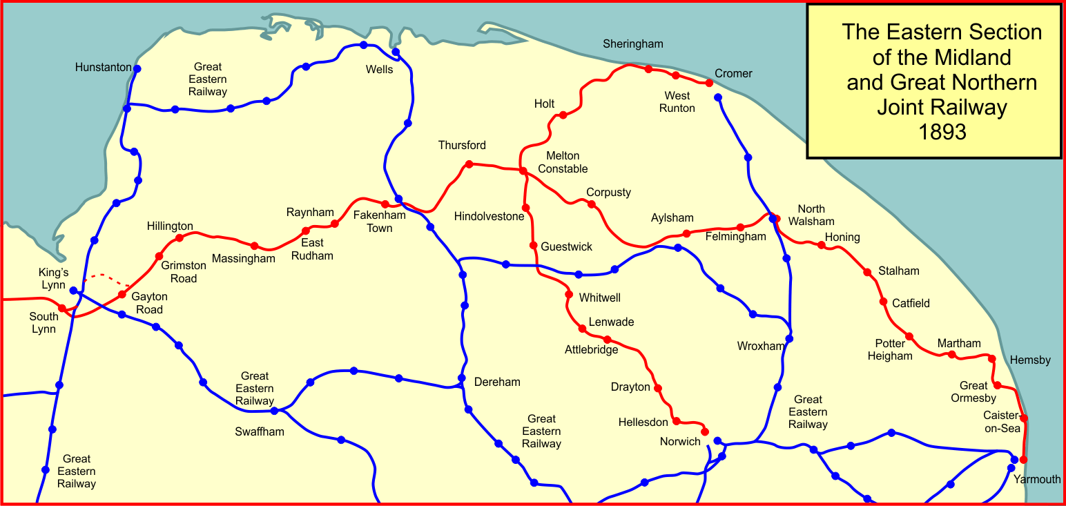 System map of the eastern part of the Midland and Great Northern Joint Railway, England, in 1893